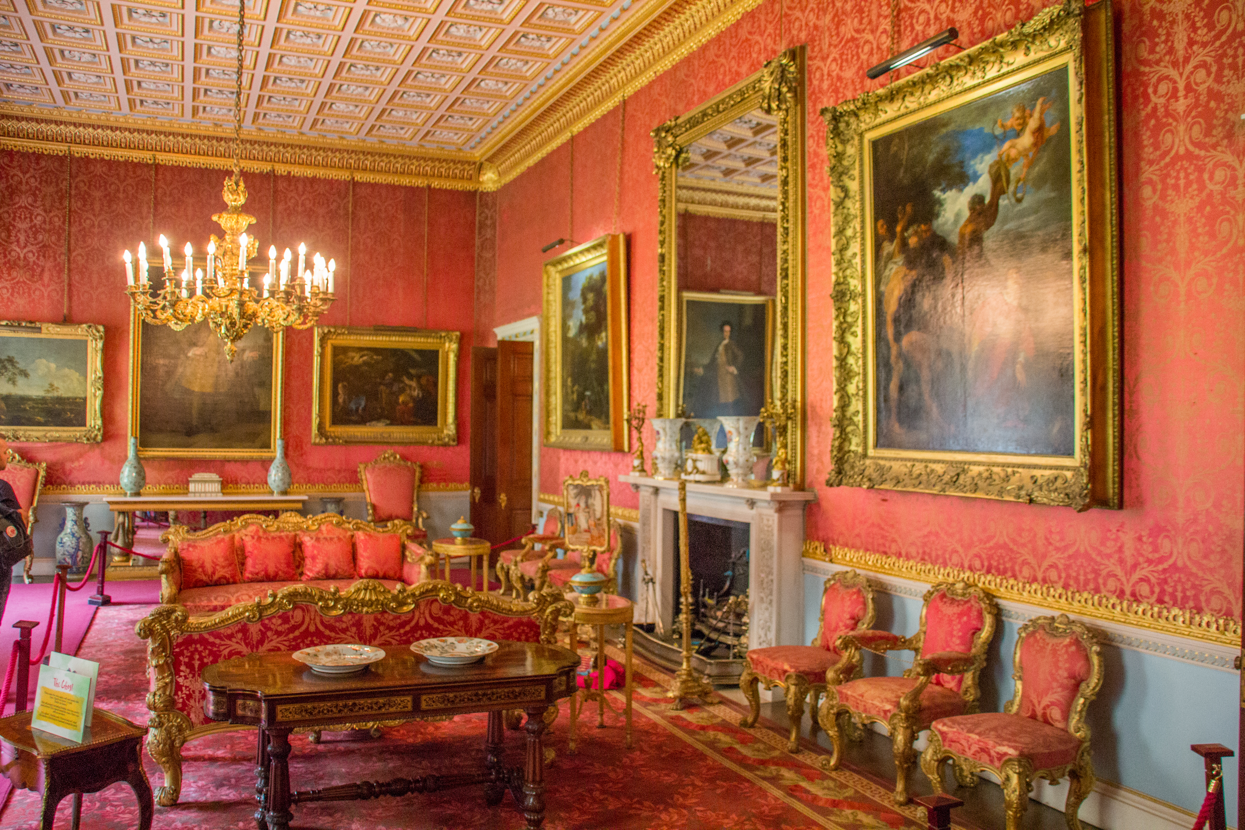 Tatton Hall, Tatton Park, United Kingdom